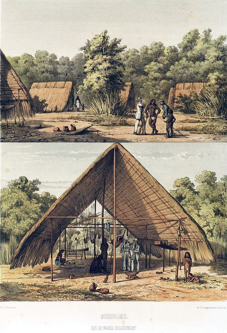 An Arowak village. The huts are covered with leafs of the pina-palmtree, and painted with roucou or anatto, a dye from Bixa orellana.